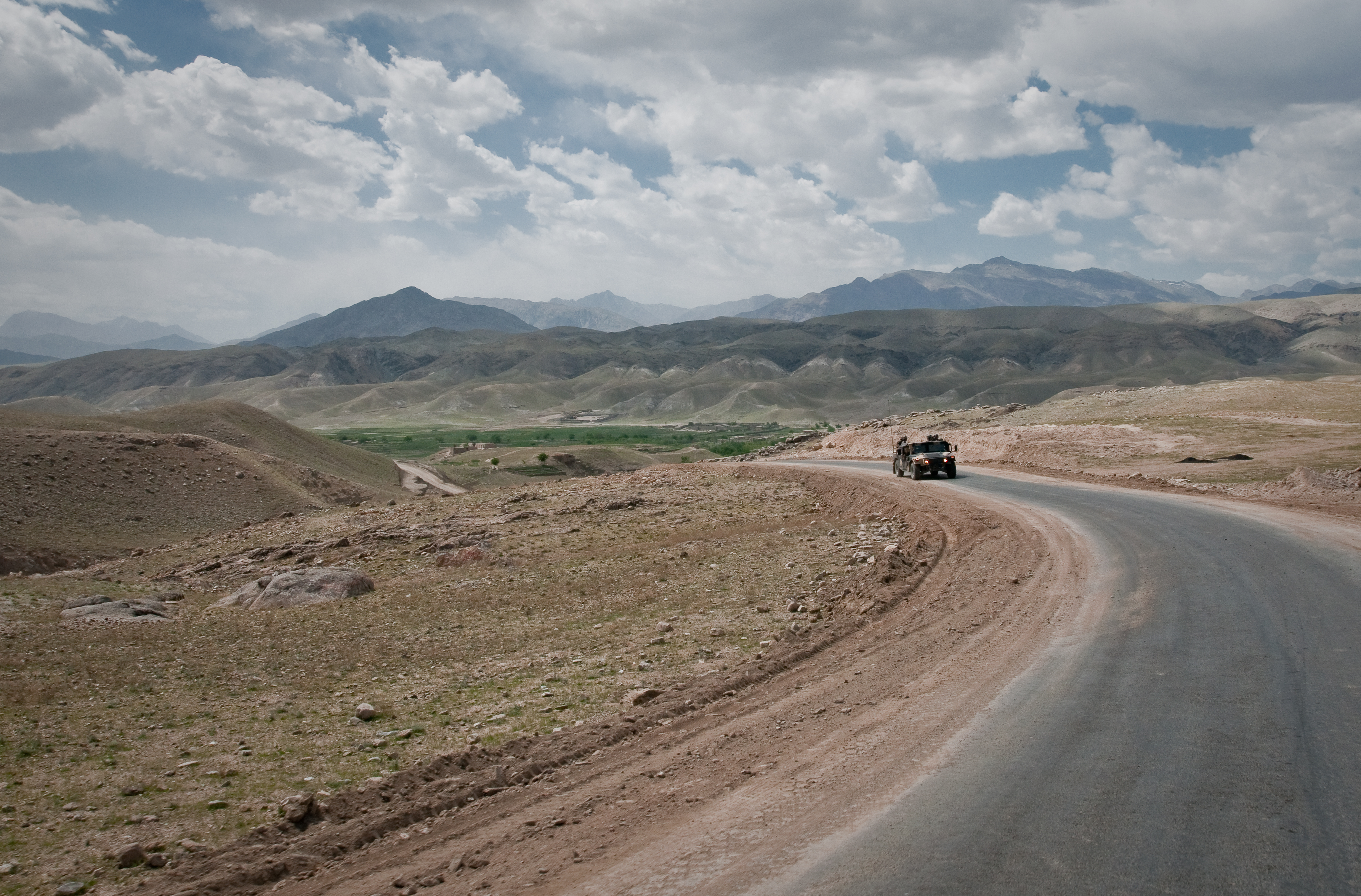 KAPISA PROVINCE, Afghanistan (March 30, 2010) —A humvee of the Afghan National Army traverses a solitary road through the Tagab Valley. (U.S. Navy photo by Petty Officer 1st Class Mark O’Donald/Released)